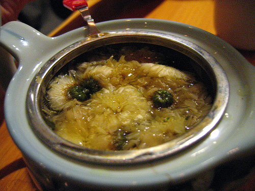 (Flikr image from Nicole Lee's photostream. Creative Commons licensed with "Some rights reserved", usable for wikipedia. )